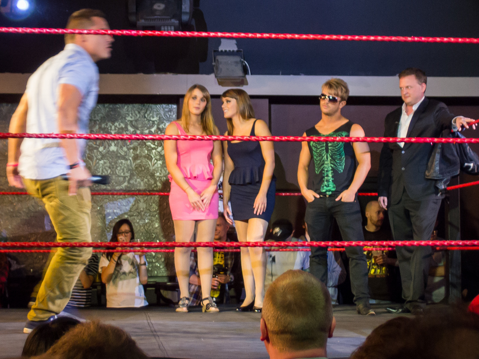 Marty Scurll, the Blossom twins, and Spud, the 4 contestants on TNA's British Boot Camp series in the ring with Jeremy Borash at Progress Wrestling Chapter 3 in September 2012. Cropped from original.